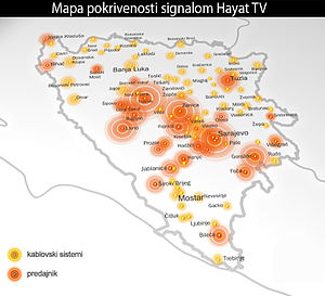 Mapapokrivenostihayattv